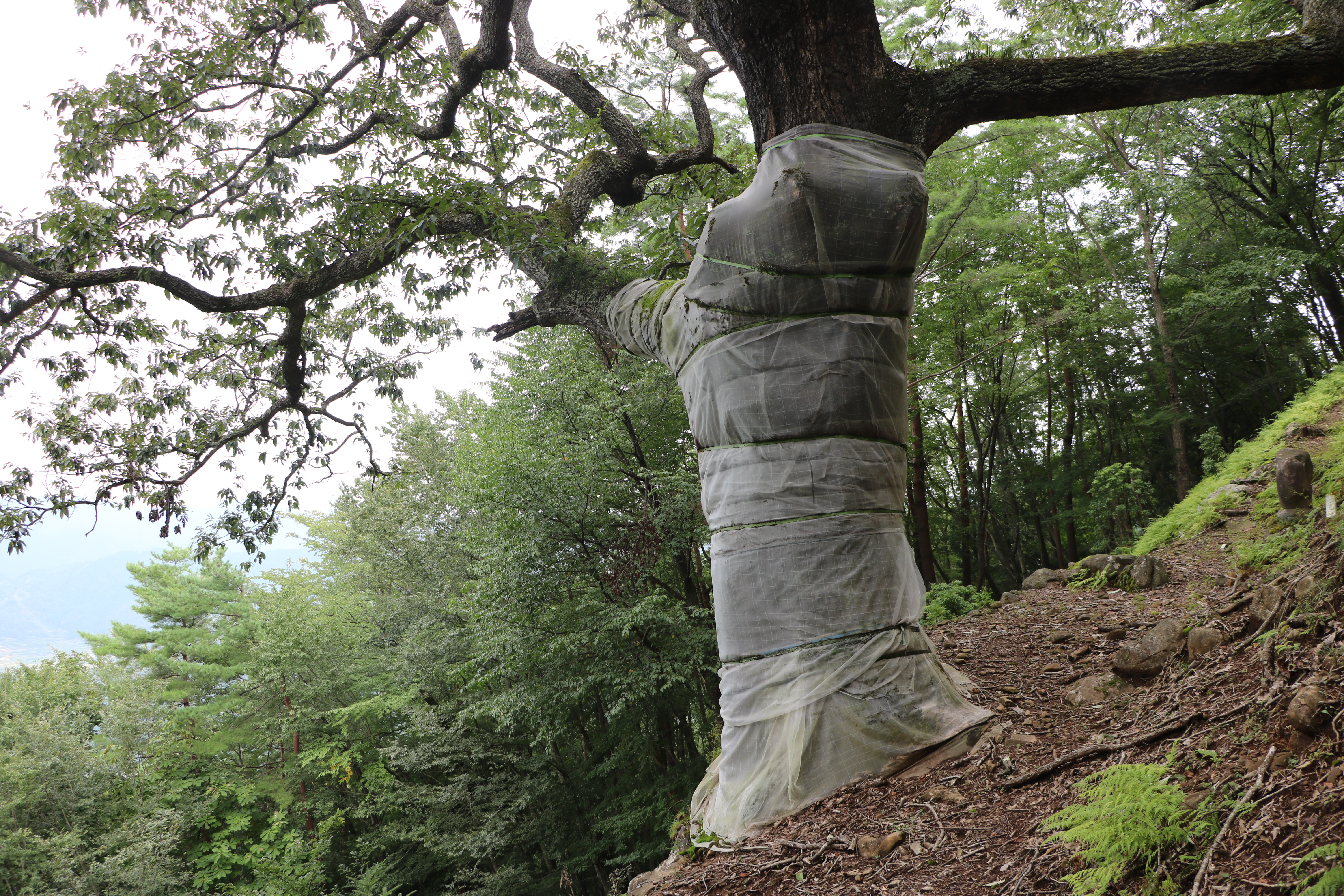 Kuchioya no O-Abemaki